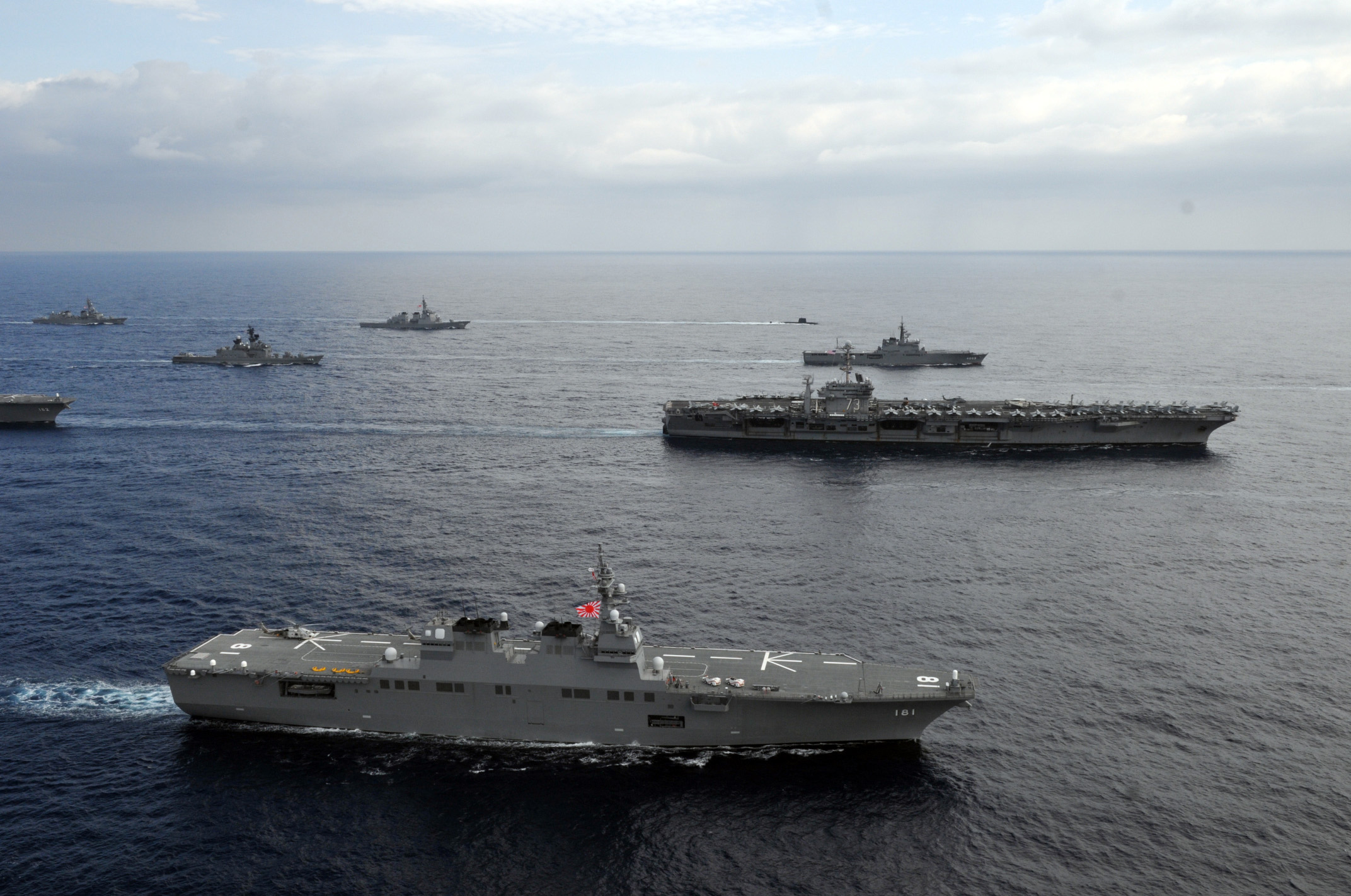 EAST CHINA SEA (Nov. 16, 2012) - Twenty-six ships from the U.S. Navy and the Japan Maritime Self Defense Force, including ships from the George Washington Strike Group, steam together after the conclusion of exercise Keen Sword 2013. Keen Sword 2013 is a biannual exercise held in order to enable the United States and Japan to train in coordination procedures and heighten interoperability needed to effectively defend or respond to a crisis in Japan and the Asia-Pacific region. (U.S. Navy photo by Chief Mass Communication Specialist Jennifer A. Villalovos/Released) Nikon D300S